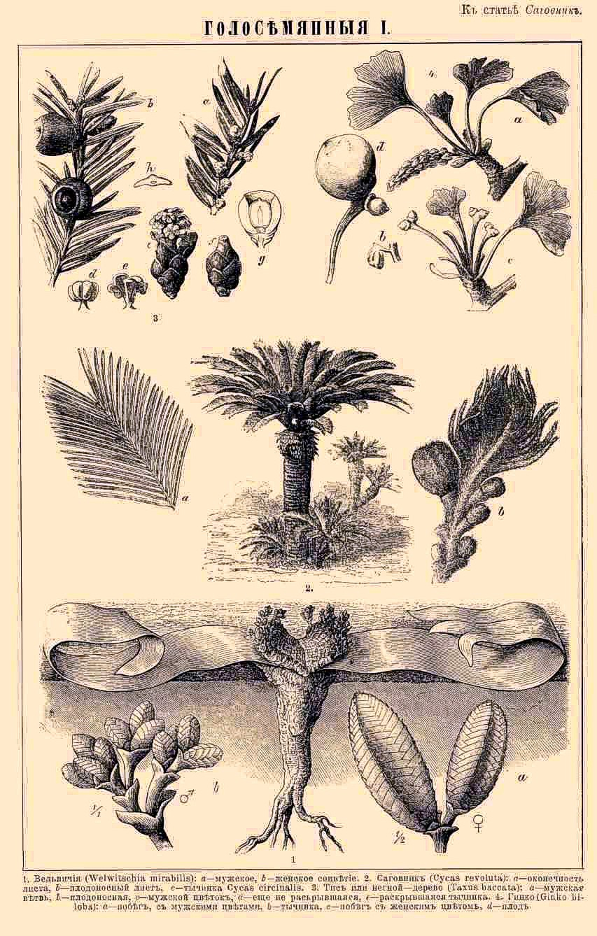 Welwitschia mirabilis, Cycas revoluta, Cycas, Taxus baccata, Ginkgo biloba